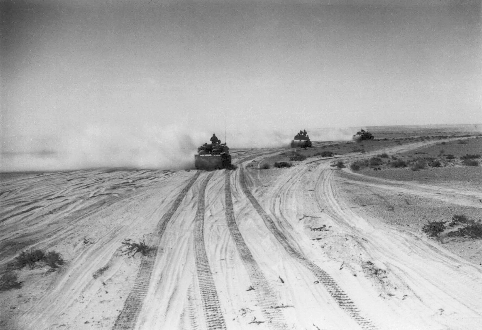 Italian "semovente" tanks in action